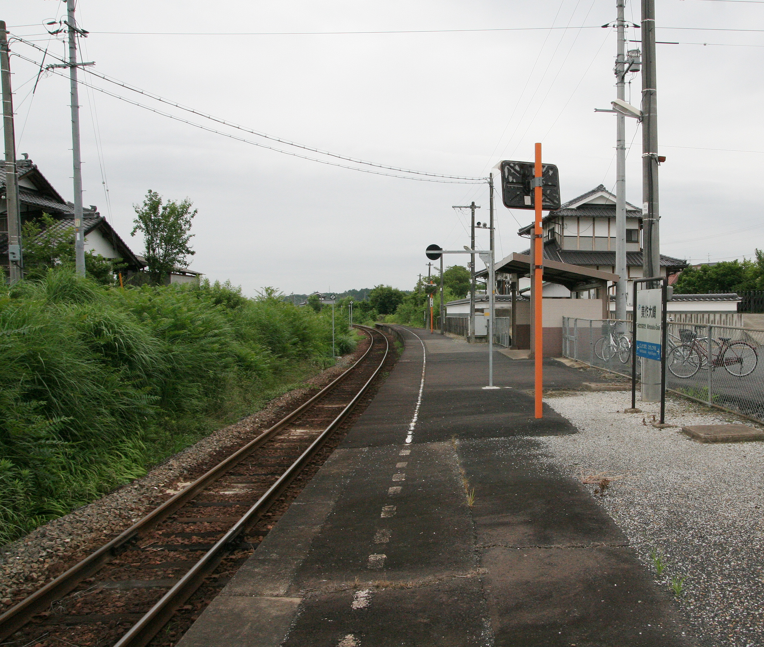 West Japan Railway Company Kishin Line mimasaka osaki sta enclosure